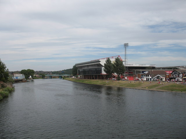 Nottingham Forest FC City Ground And the Trent